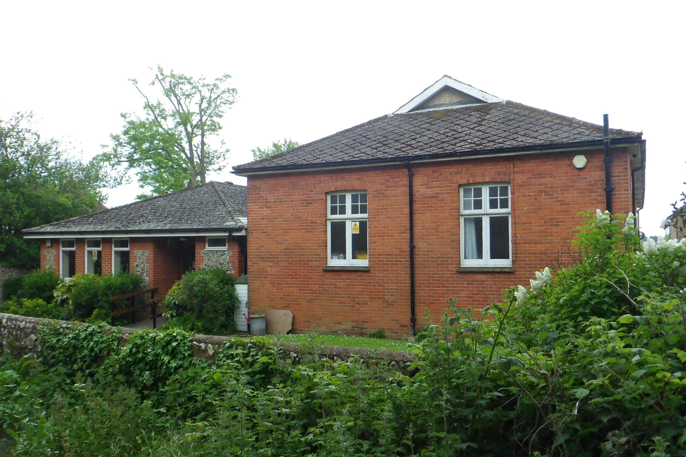 Church hall of St Symphorian's Church, Durrington, Worthing, West Sussex, England.